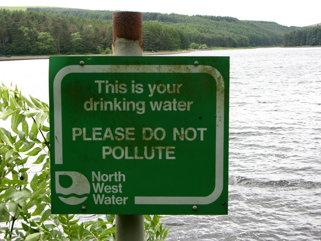 Sign next to Turton and Entwistle Reservoir North west water is now United Utilities